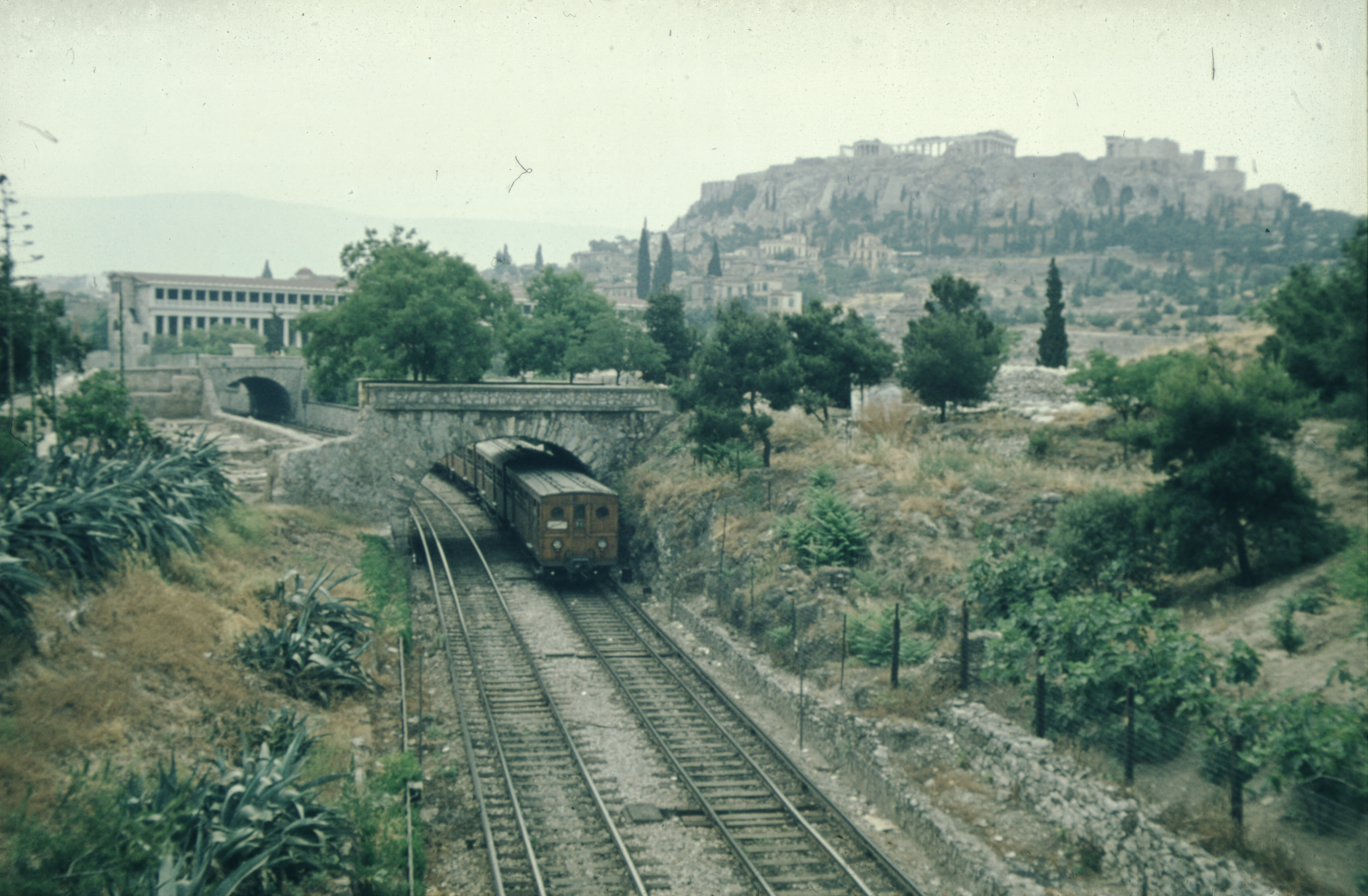 Electric train Athens/ Pireus, around 1980